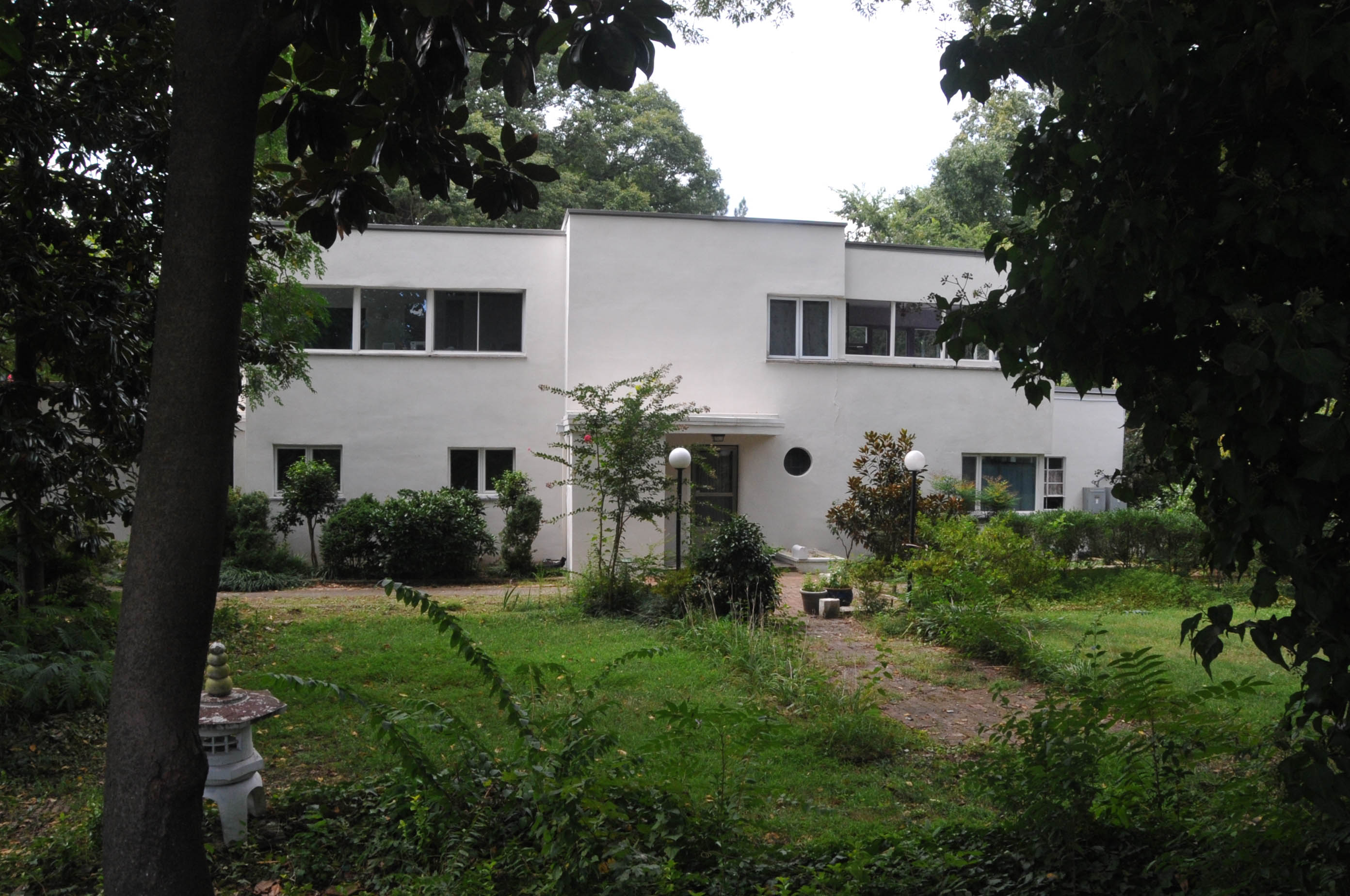 1935 MODERN MOVEMENT